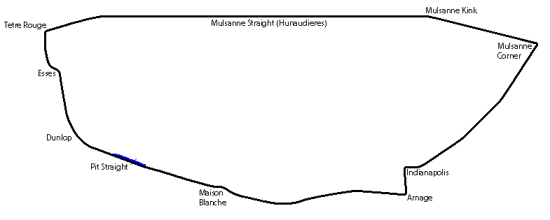 Le Mans Circuit de La Sarthe from 1932 to 1967.